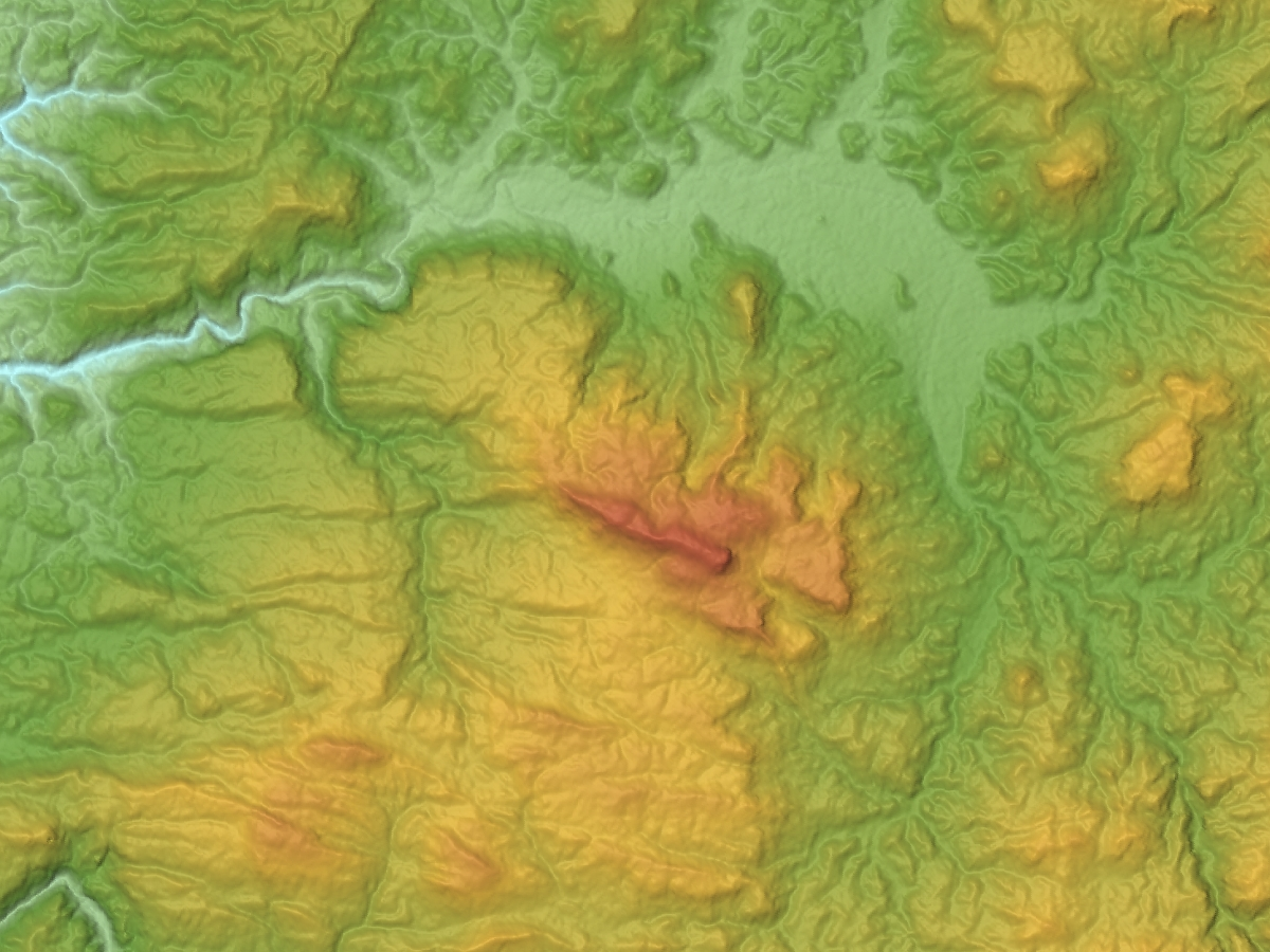 Mount Haneyama in Oita Prefecture, Kyushu, Japan.